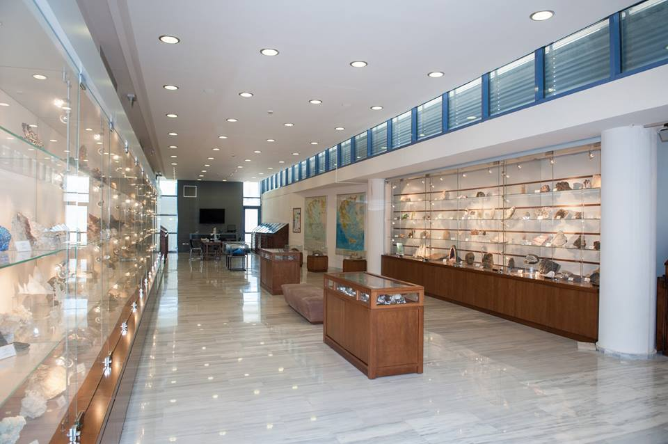 Mineralogical museum of IGME